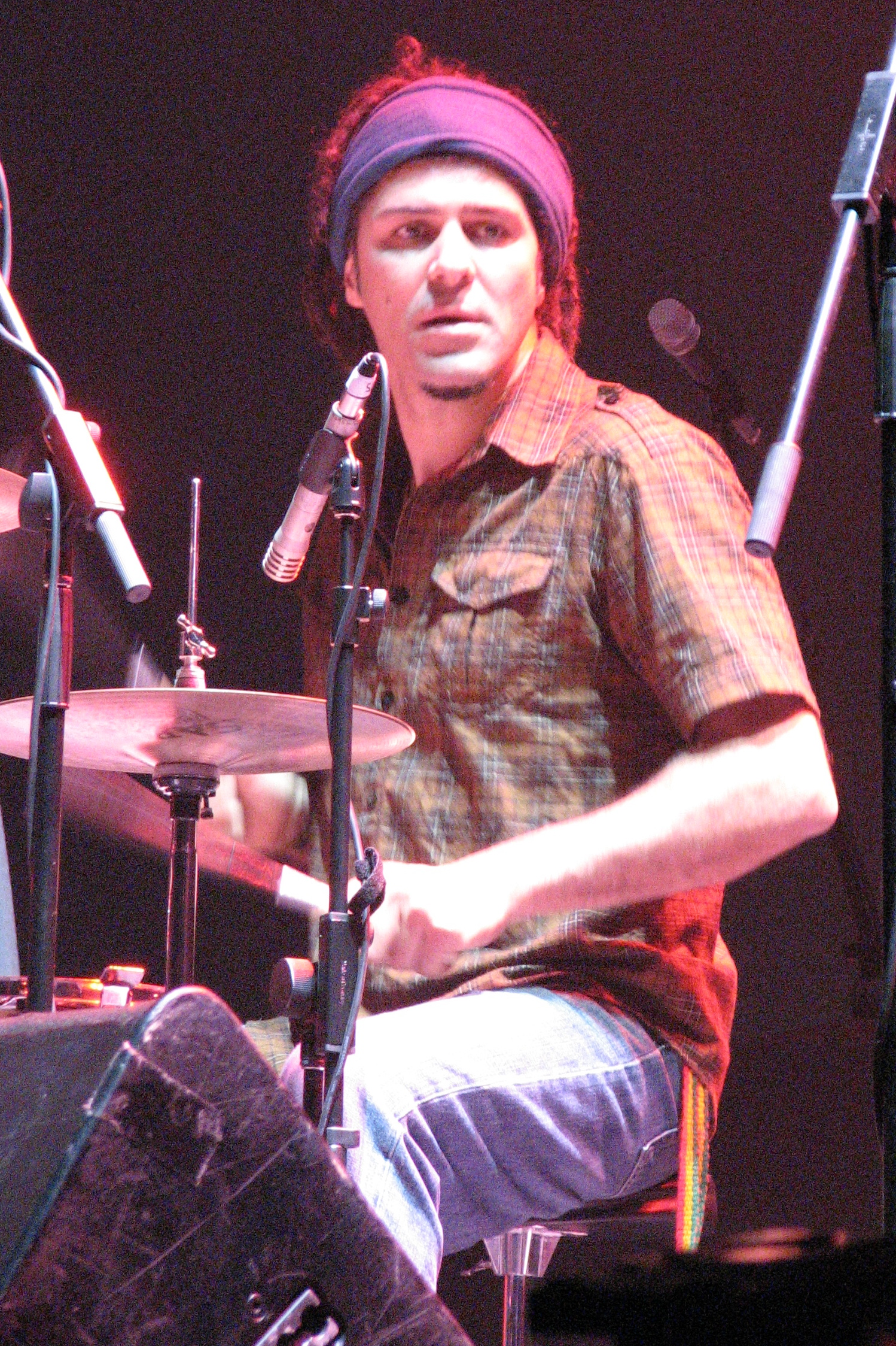 Australian musician Nicky Bomba on 11 May 2007.IMG_0046